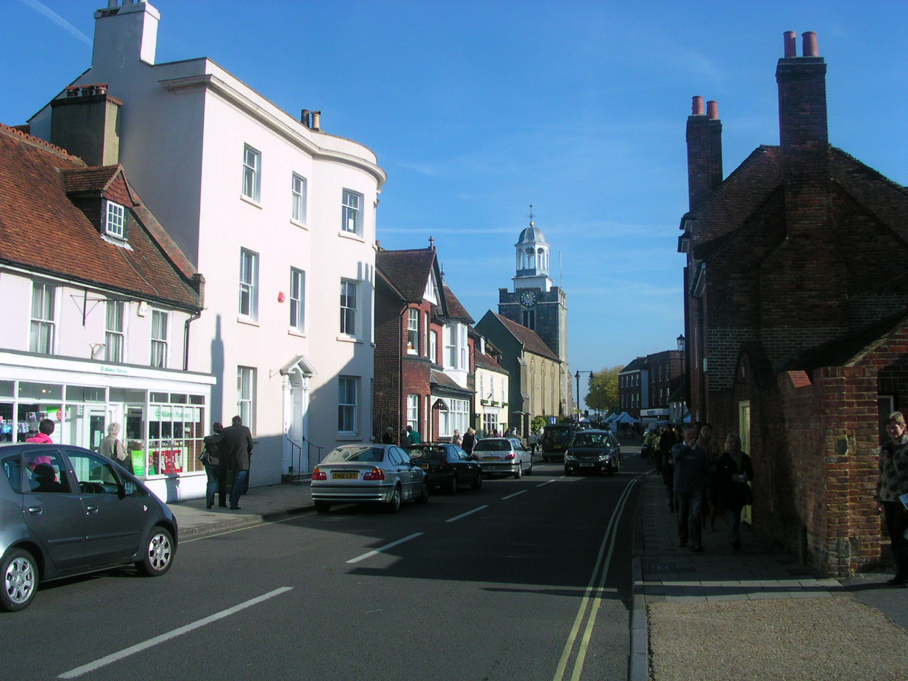 Lymington, Hampshire, England. November 2007.